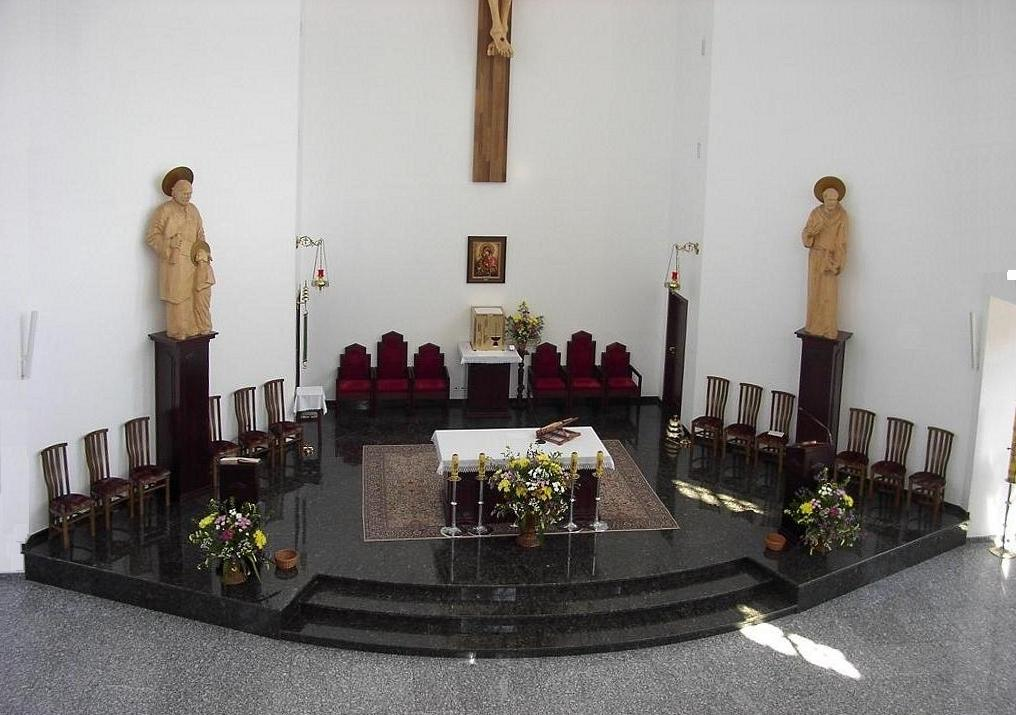 Interior of St. Joseph Cathedral in Sofia, Bulgaria